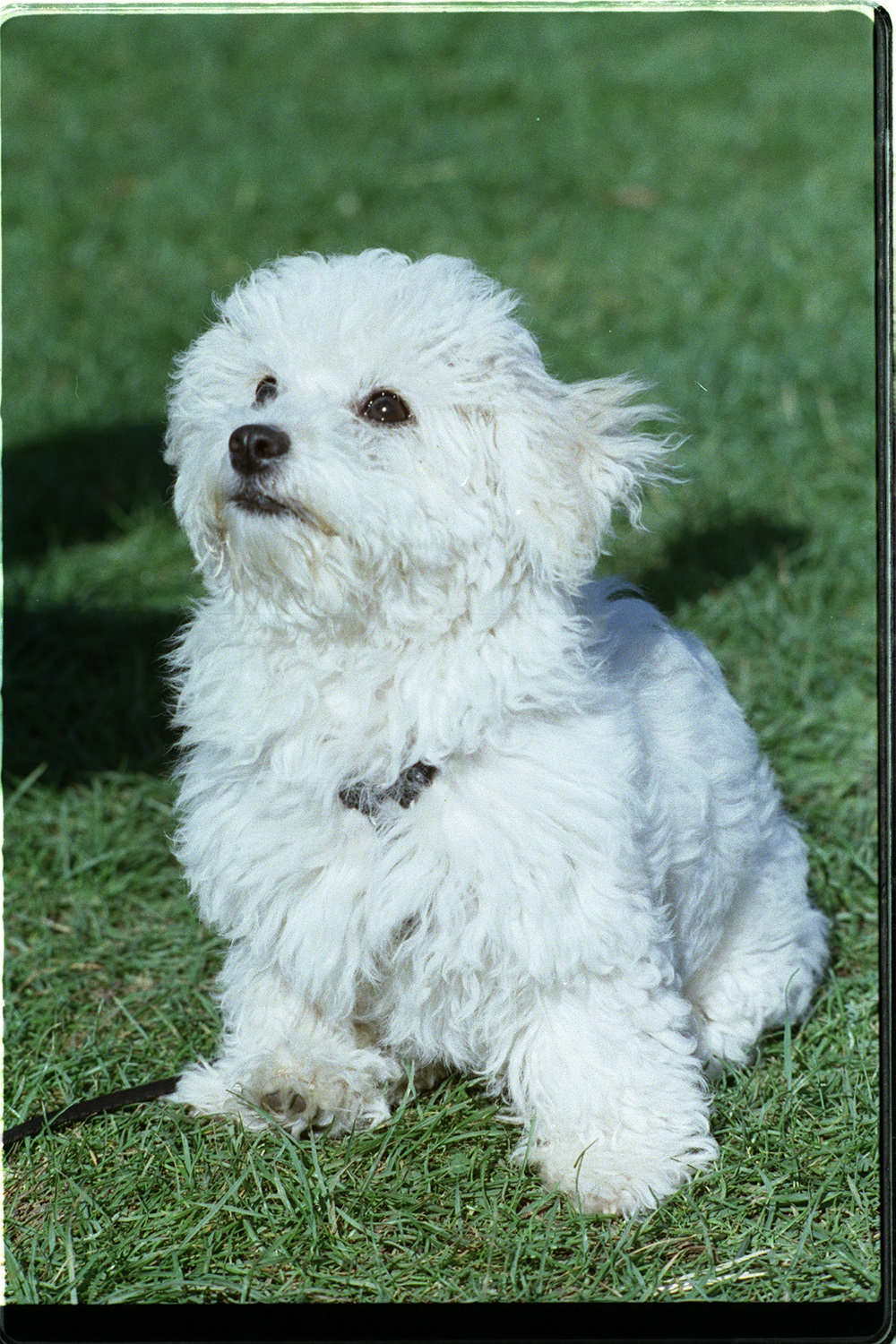 HAVANESE 23OCT99 photo by NANCY WONG "SOPHIA" IS A HAVANESE, ONE OF 4,000 IN THE WORLD.